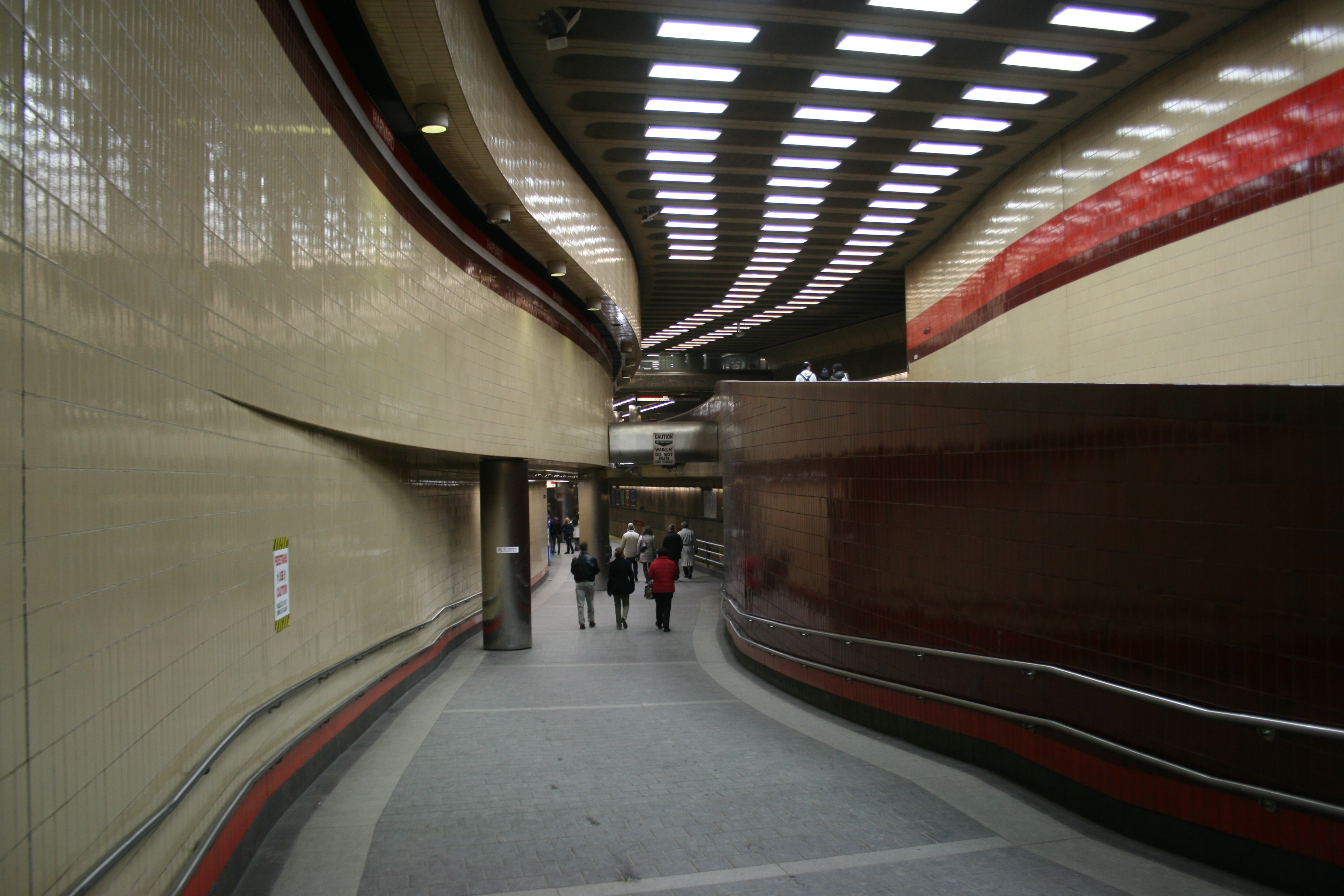 Interior of Harvard Station on the MBTA's Red Line. The outbound platform is above; the inbound platform is below.